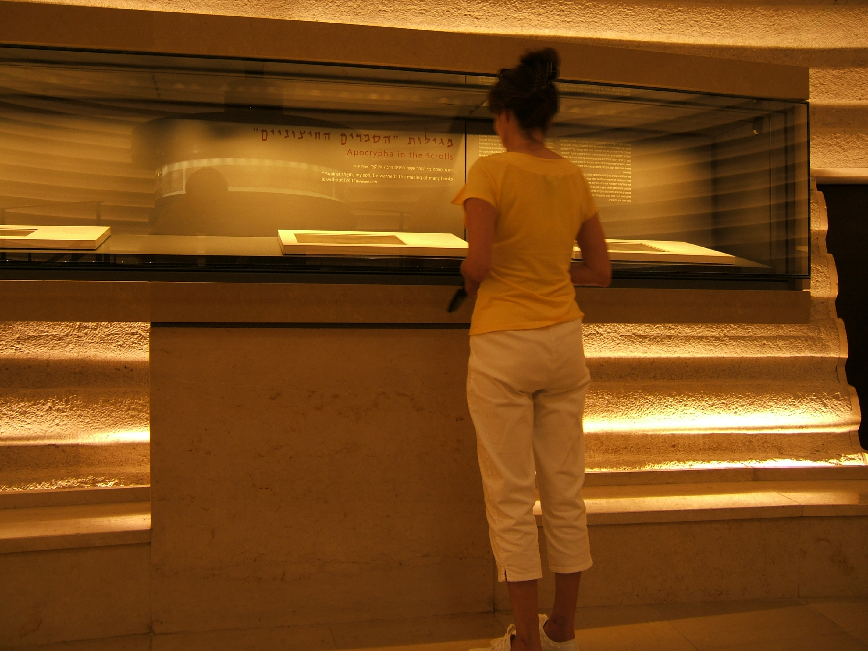 Dead sea scroll fragments on display at the Israel Museum in Jerusalem. Photo taken in Israel 2005 by myself (Bantosh).